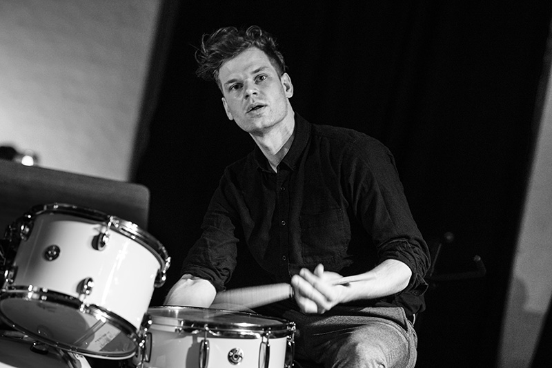 Christian Lillinger at Copenhagen Jazz Festival 2018. Performing with Christopher Dell (v), Søren Kjærgaard (p), Jonas Westergaard (b).